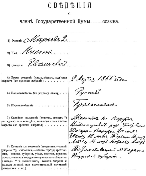 About the State Duma deputy Nikolai Markov